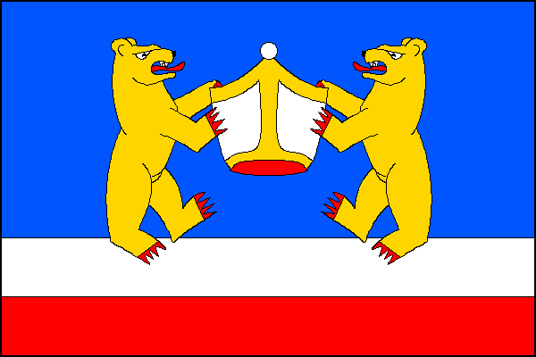 Municipal flag of Svatý Mikuláš village, Kutná Hora District, Czech Republic.